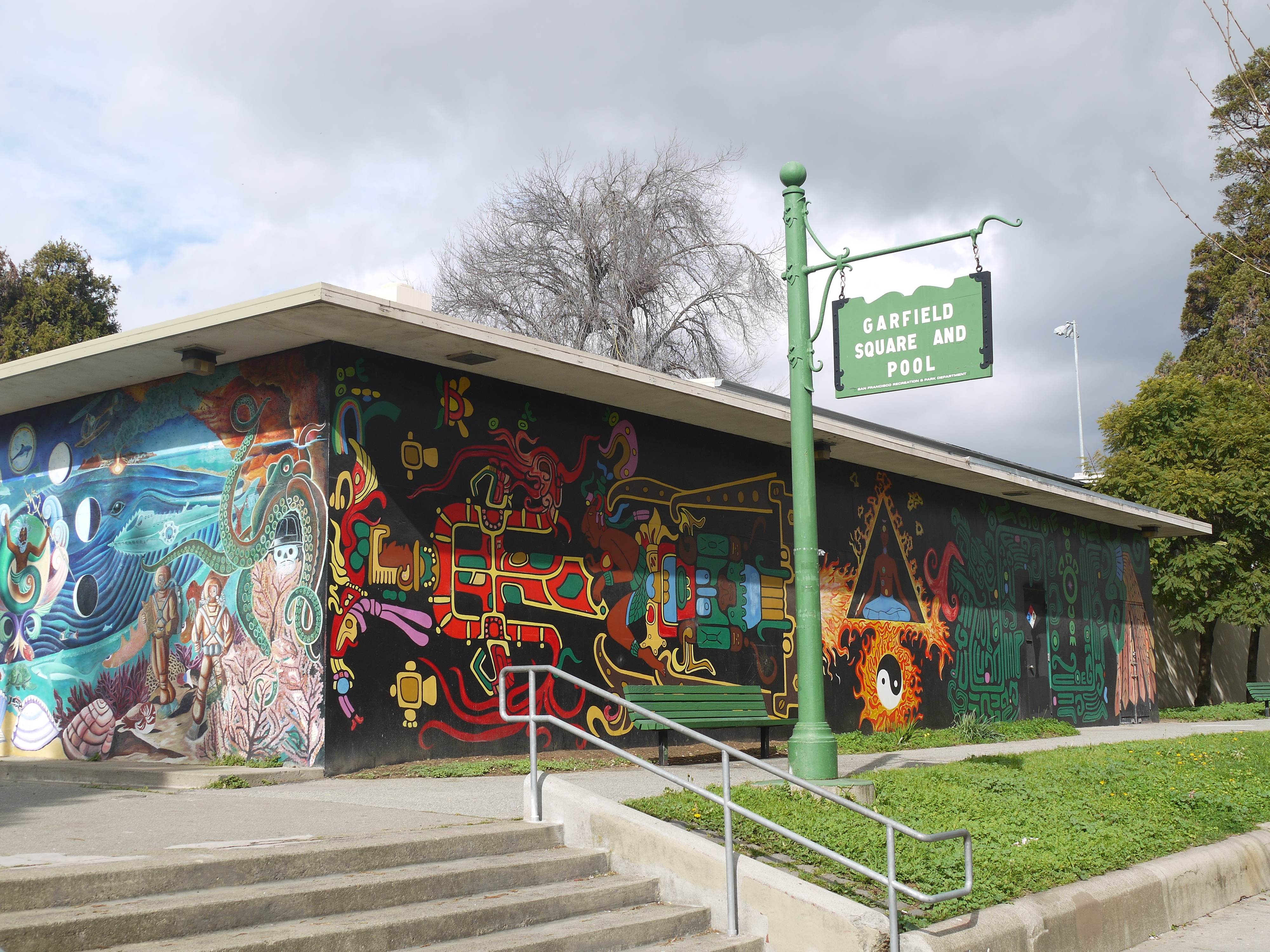 Picture of the pool building, sign, and mural of Garfield Square Park in San Francisco's Mission District.